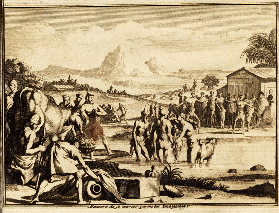 The ten avatars of Vishnu, according to Pieter van der Aa, in 'La Galerie Agreable du Monde (...).Tome premier des Indes Orientales.', published by P. van der Aa, Leyden, c. 1725 (*the title page*): Avatars *ONE*; *TWO* (shown above); *THREE*; *FOUR*: *FIVE*; *SIX*; *SEVEN*; *EIGHT*; *NINE*; *TEN*; also, from the same source: "Comment les Indiens portent aux fetes les Idoles Elwara et Wistnou"* "Fiancailles parmi les Benjanois"* "Formes des Saints, ou Vagabonds Benjanois"* "Holy, Fete celebree par les Benjanes et Rasboutes masquez"* "Idoles, Mathematiciens, Philosophes, etc., des Indes"* "Les Apostats Benjanois font desreches inities au Paganisme"* "Les Penitens Benjanois se lavent dans la Riviere de Ganges"* "L'Idole Ganga suivie d'un Sourdaes, pendant avec un croc attache a son corps"* "Maniere de se marier parmi les Benjanois"* "Pagoda, ou Temple de l'Idole Wistnou, represente sous la figure d'un Pilier"* "Temple des Idoles Benjanois en dedans"*